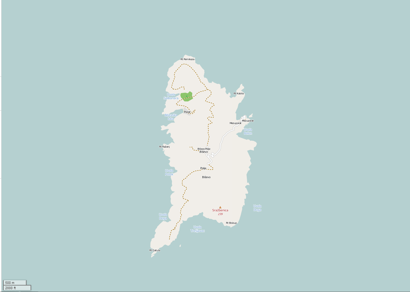 Island of Biševo